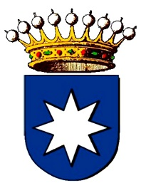 Coat of arms of the Count of Torreflorida